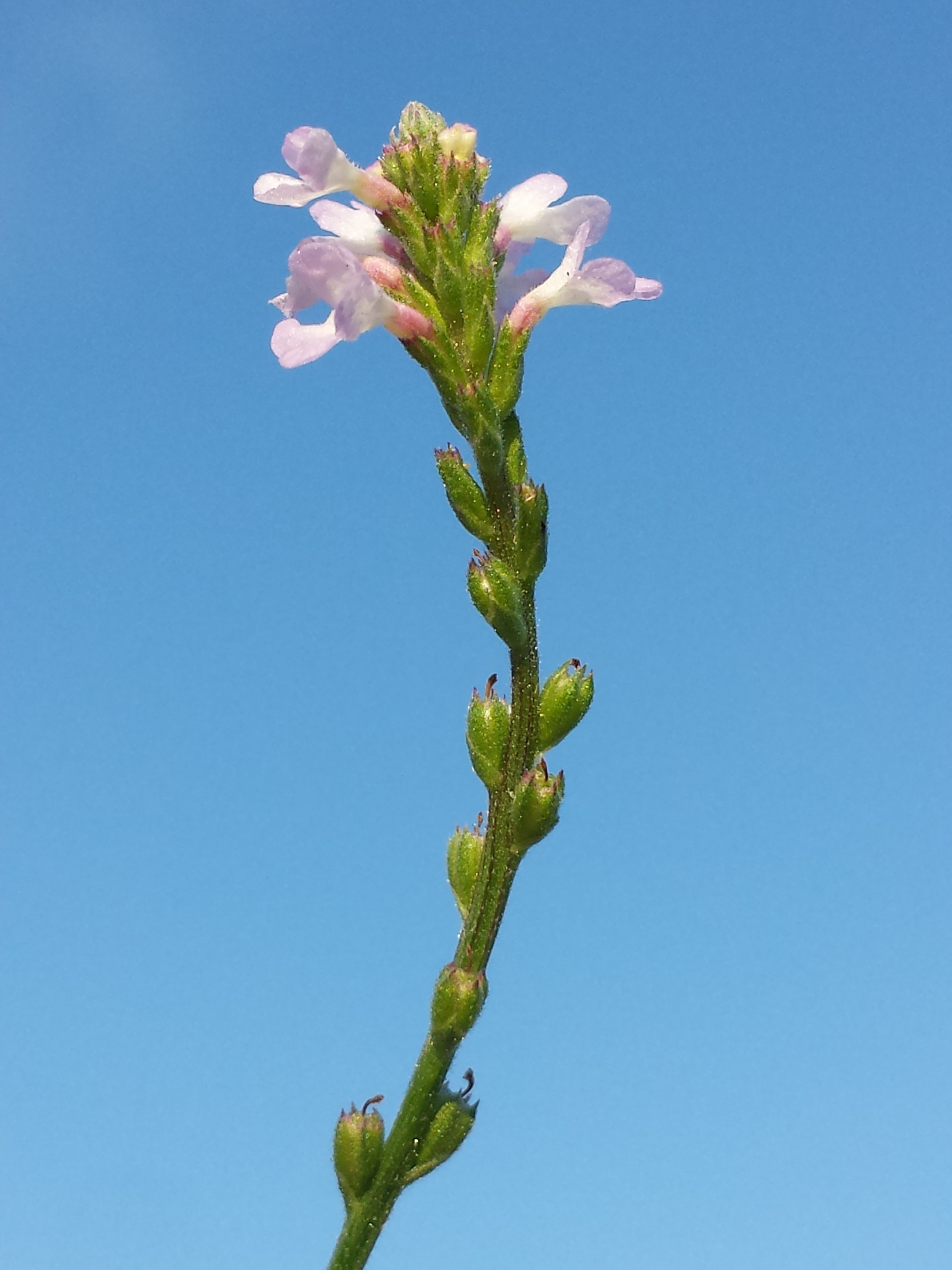 Inflorescence Taxonym: Verbena officinalis ss Fischer et al. EfÖLS 2008 ISBN 978-3-85474-187-9 Location: Stammersdorfer Zentralfriedhof cemetery, Vienna-Floridsdorf - ca. 160 m a.s.l. Habitat: grave